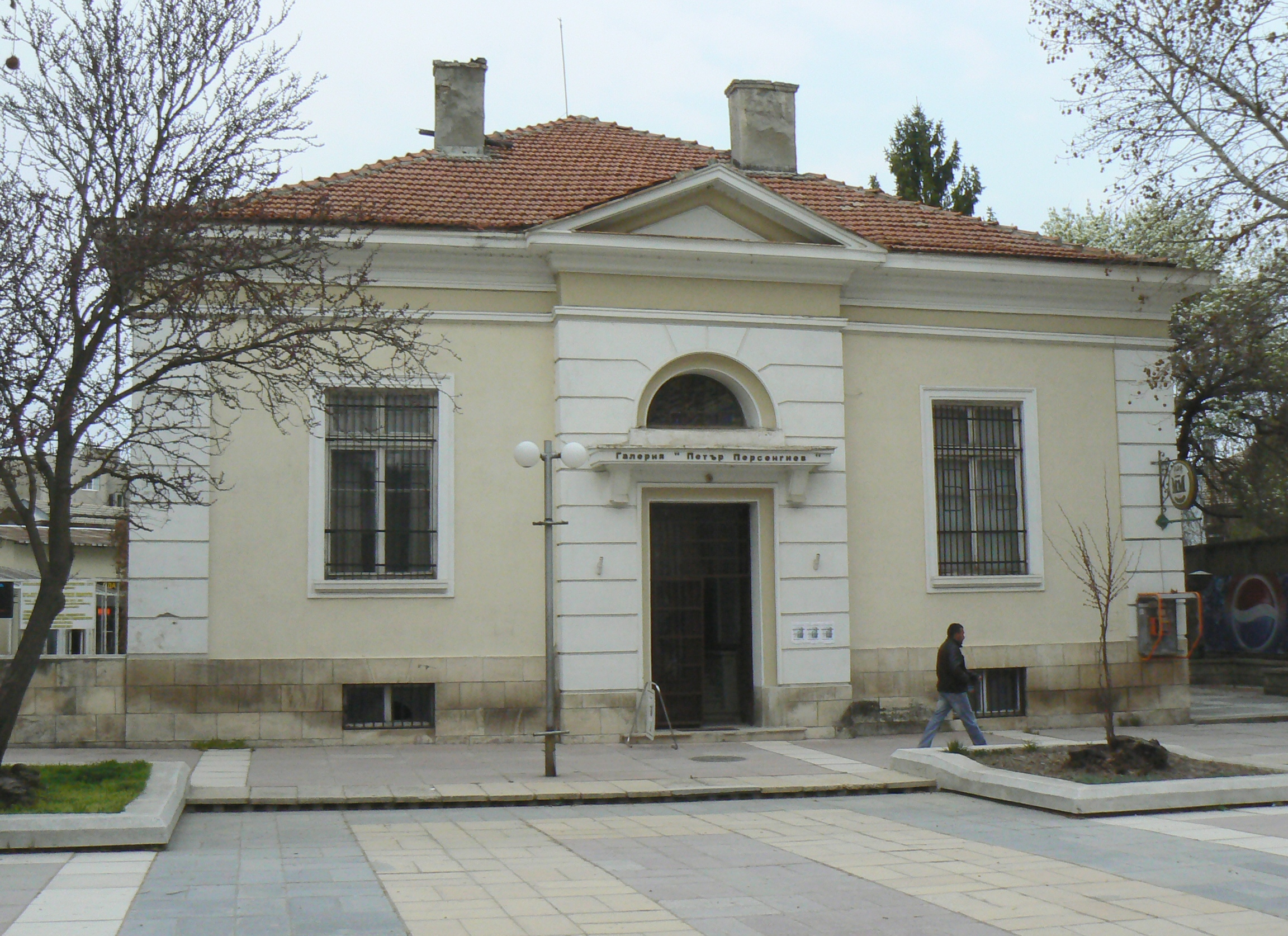 Art gallery "Peter Persengiev", the town of Novi pazar, Bulgaria